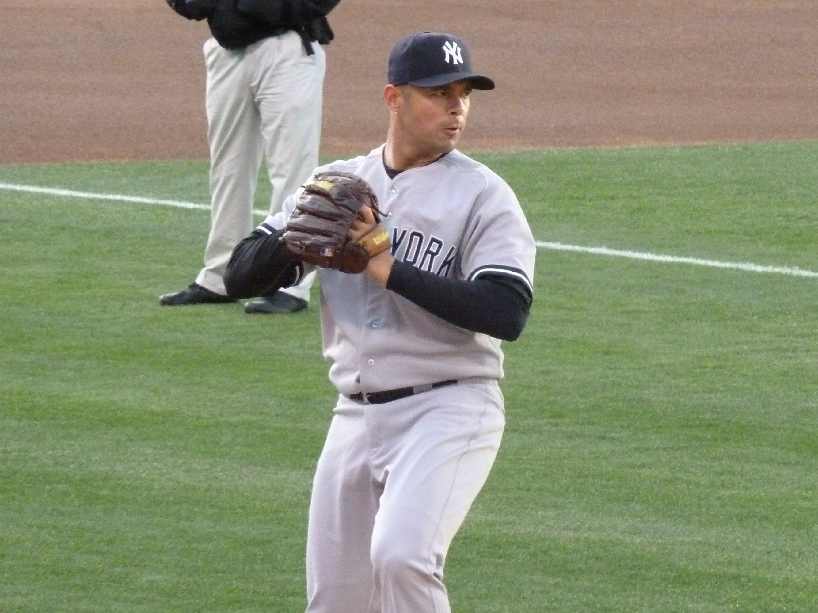 Javier Vázquez